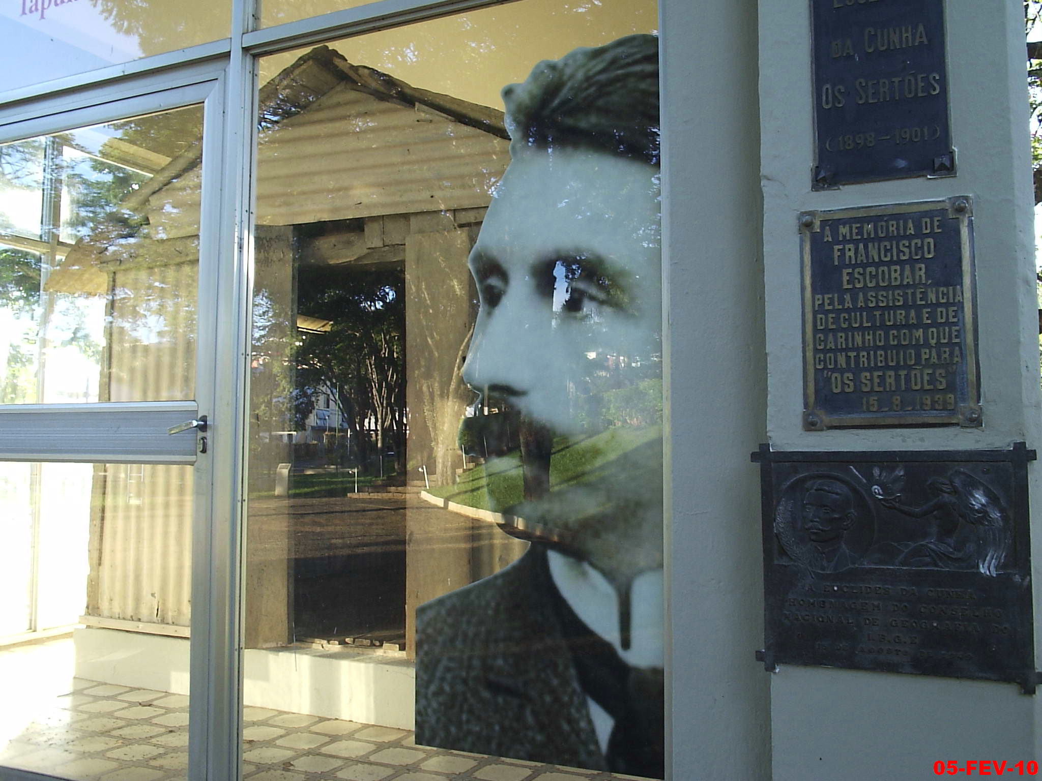 Zinc House, São José do Rio Pardo, São Paulo, Brazil: here, Euclides da Cunha wrote "Rebellion in the backlands" and supervised the reconstruction of Euclides da Cunha Bridge in 1898.